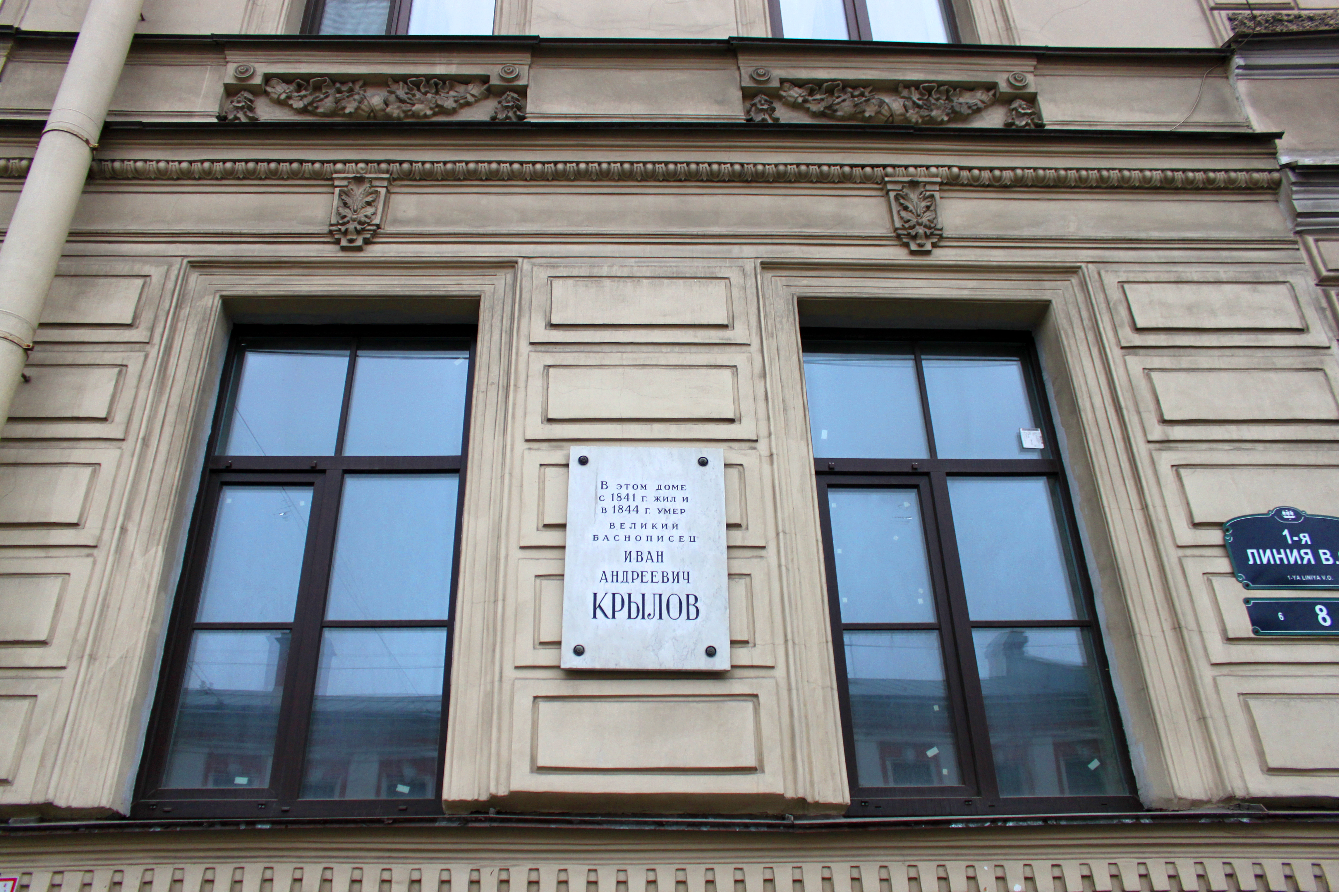 Memorial plaque of Ivan Krylov, 1st line of Vasilievsky Island, Saint Petersburg